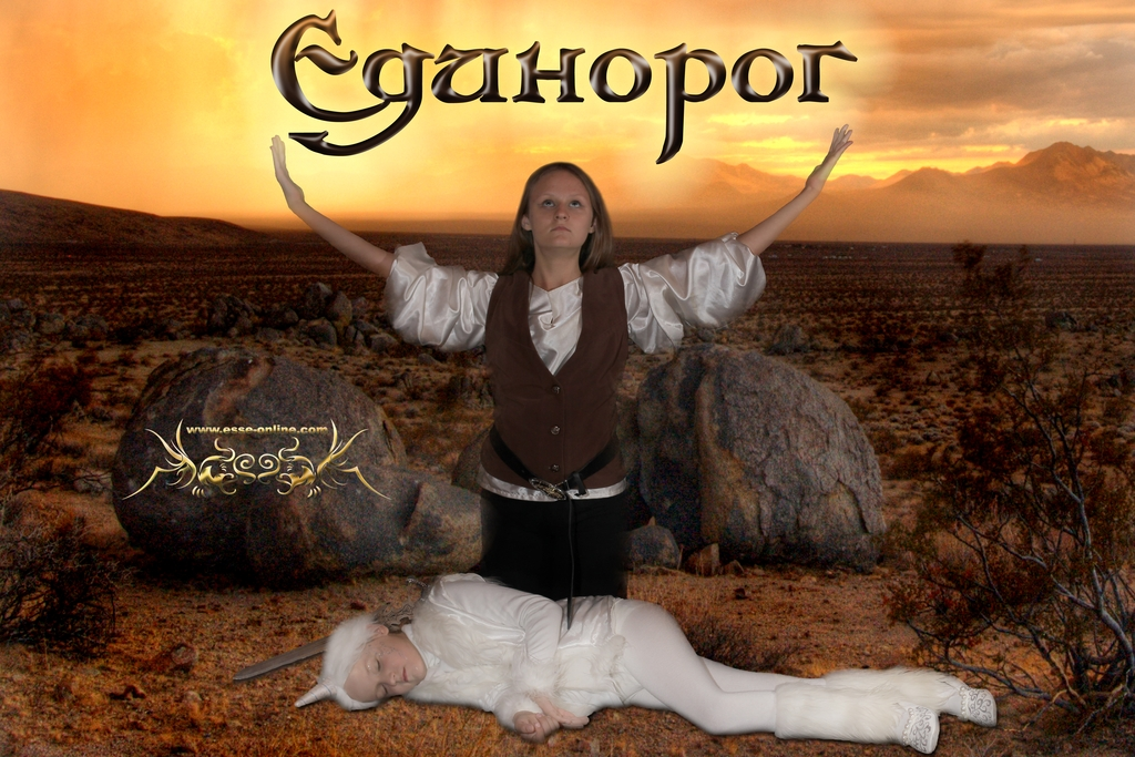 "Unicorn". Fantasy rock musical of group "ESSE" -"Road without return", based on the saga of A. Sapkowski "The Witcher". Official poster. Scene 10. Symphonic rock-group "ESSE". Darya Pronina. Cirilla Fiona Elaine Riannon (Ciri, Zireael, Swallow), Mikhail Proninn (Unicorn). (Poster - Anastasia Vorotnikova. Photo - Yuri Osadchy.)